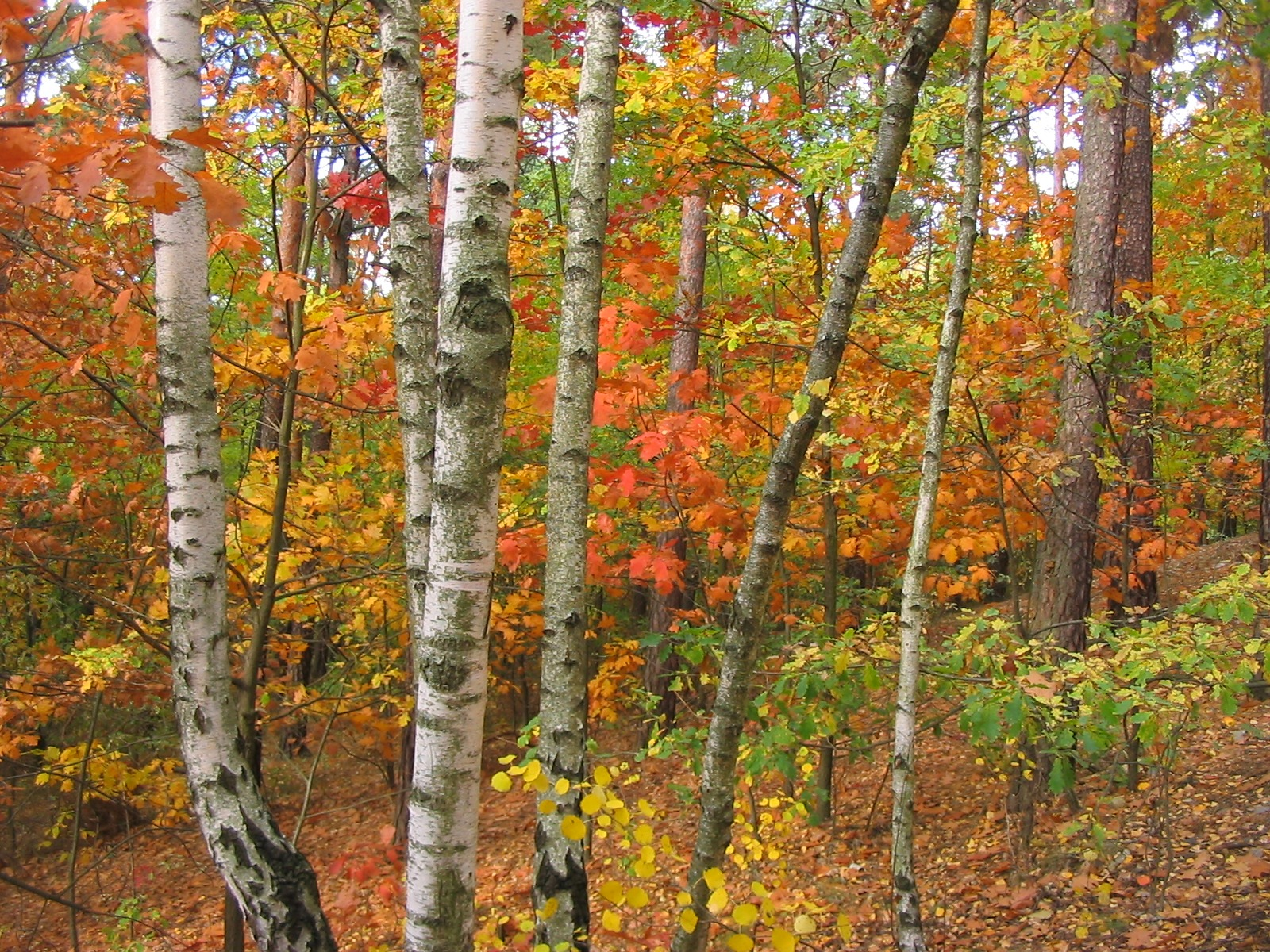 Colours of autumn in a Polish forest Author: Mohylek 15:17, 2 November 2006 (UTC)